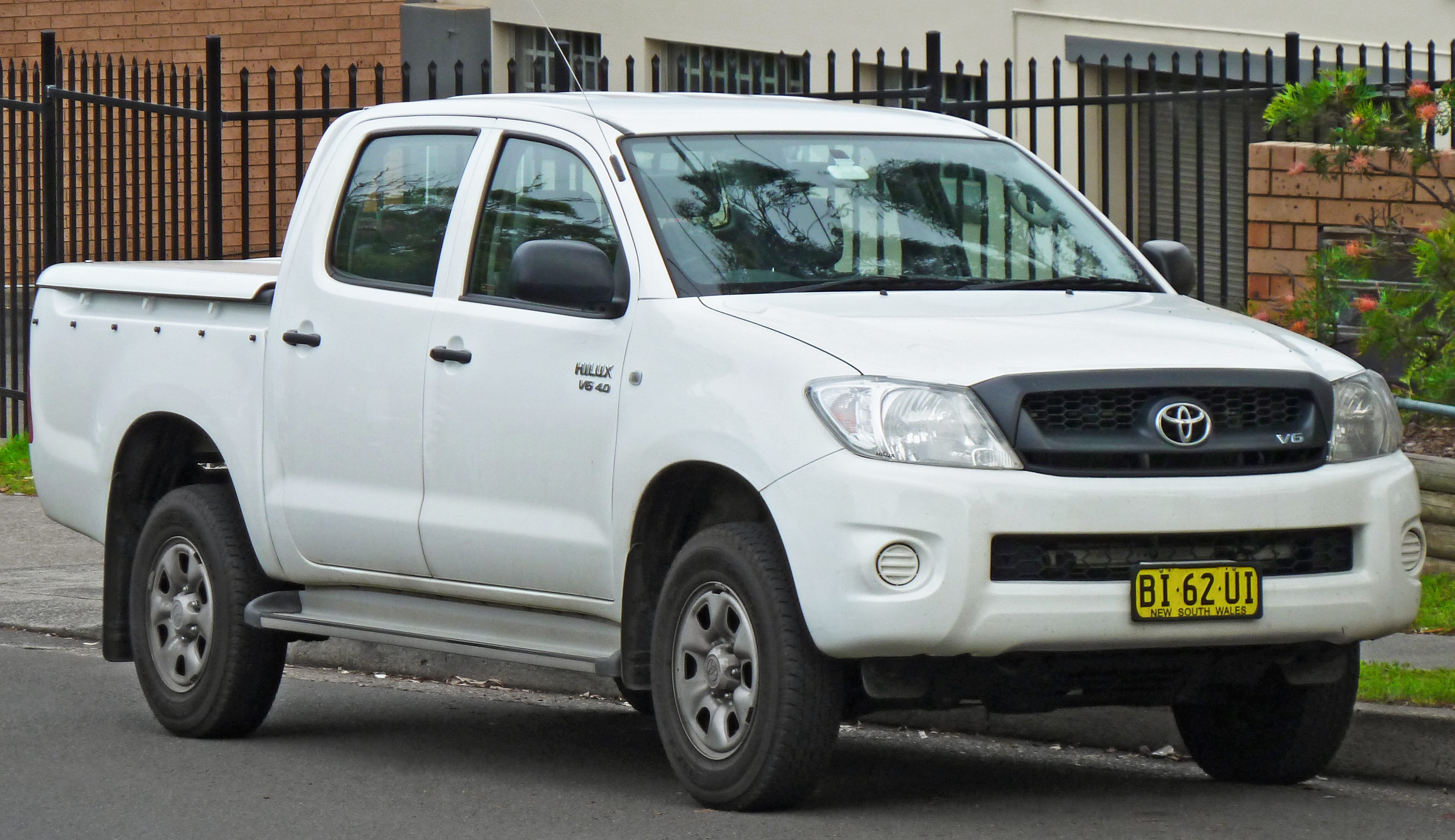 2010 Toyota HiLux (GGN25R) SR 4-door utility. Photographed in Kirrawee, New South Wales, Australia.